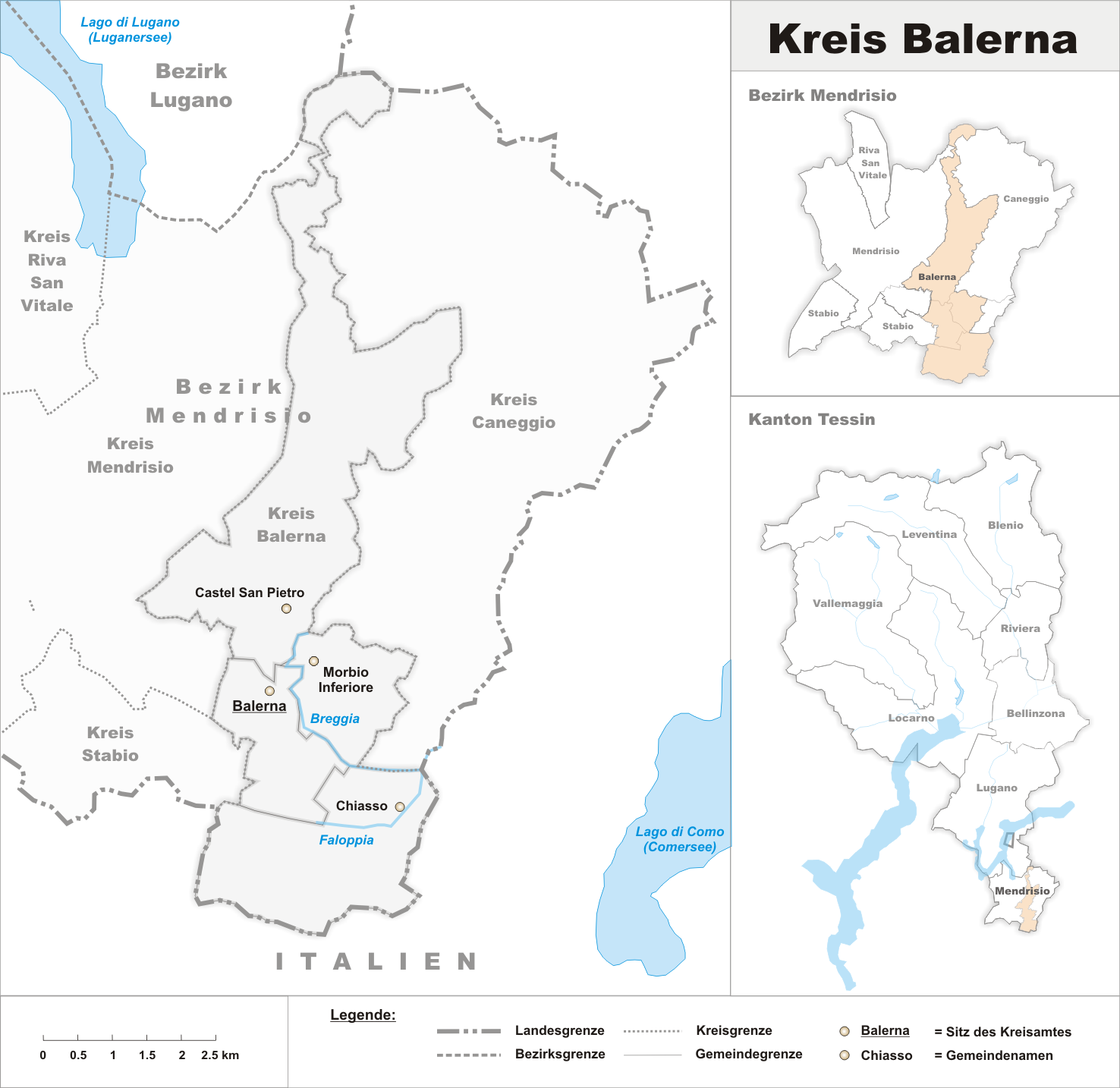 Municipalities in the circle of Balerna